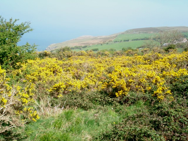 Scrubland and farmland on the Great Orme